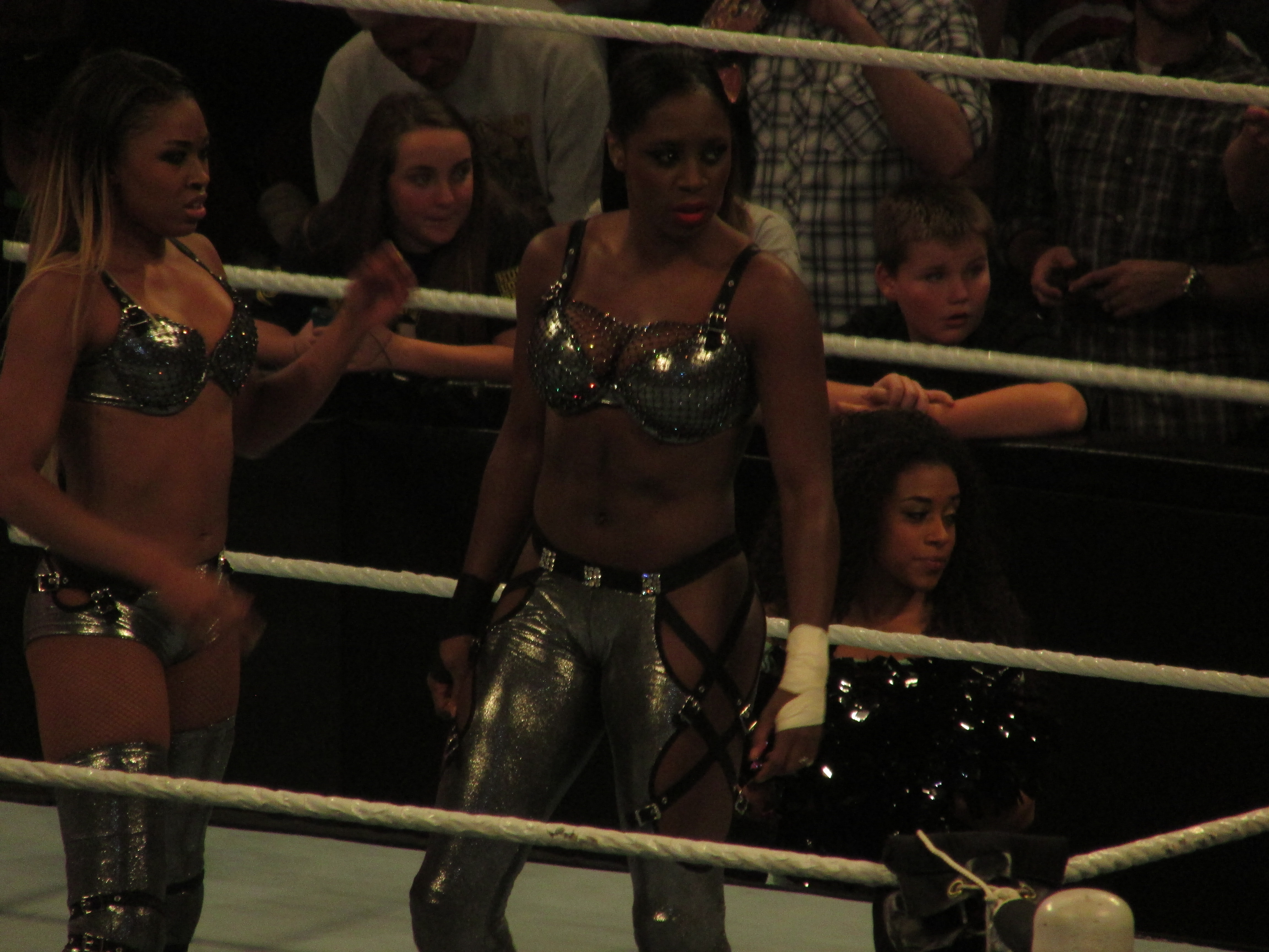 The Funkadactyles, Cameron (Ariane Andrew, left) and Naomi (Trinity McCray, right), in the ring during Raw on September 16, 2013. JoJo Offerman is visivle at ringside.